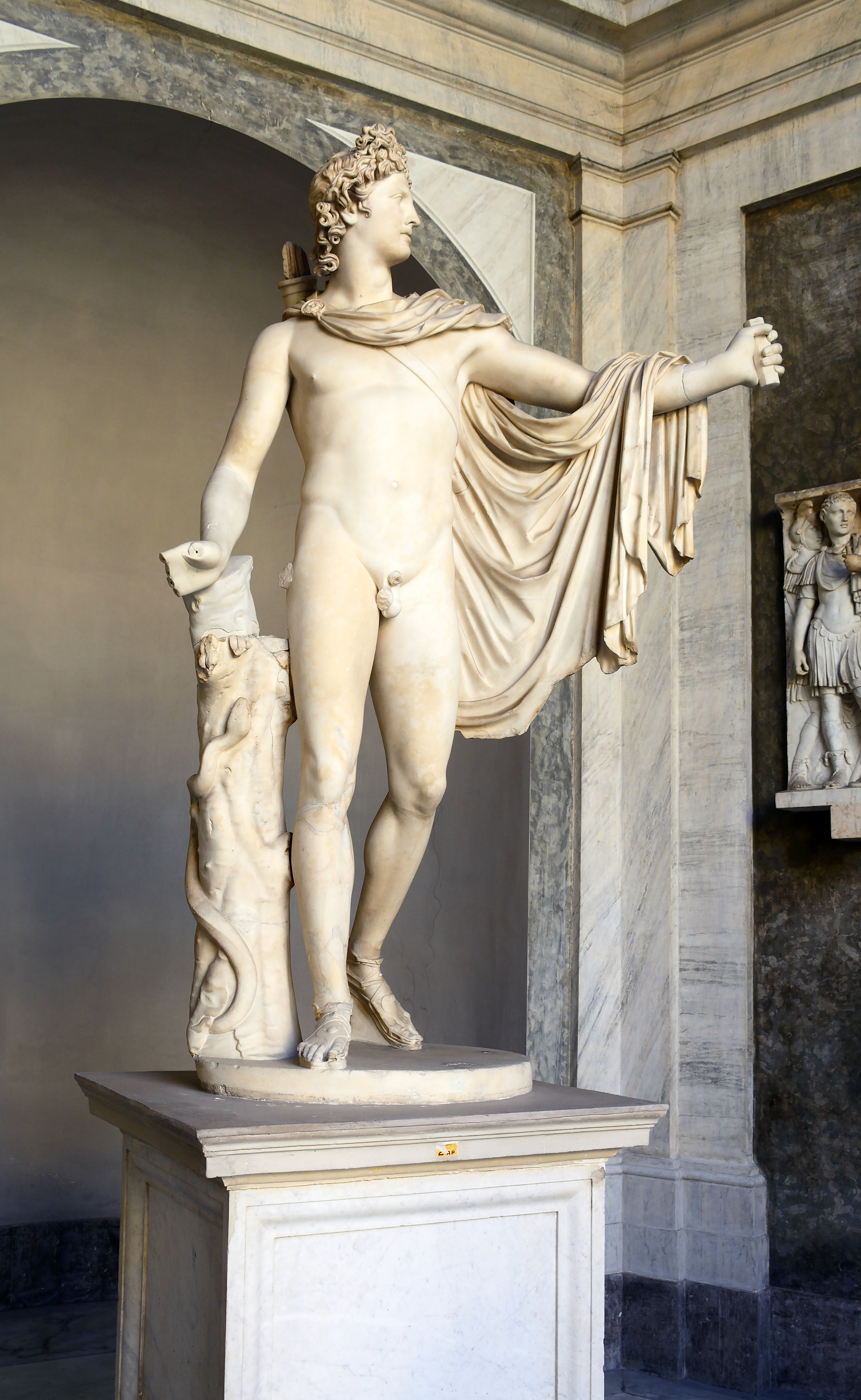 Roman copy after a Greek bronze original of 330–320 BC. attributed to Leochares. Found in the late 15th century. Apollo of the Belvedere